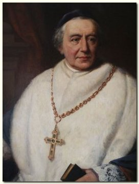 Mgr Gerardus Petrus Wilmer, bishop of Haarlem, Netherlands